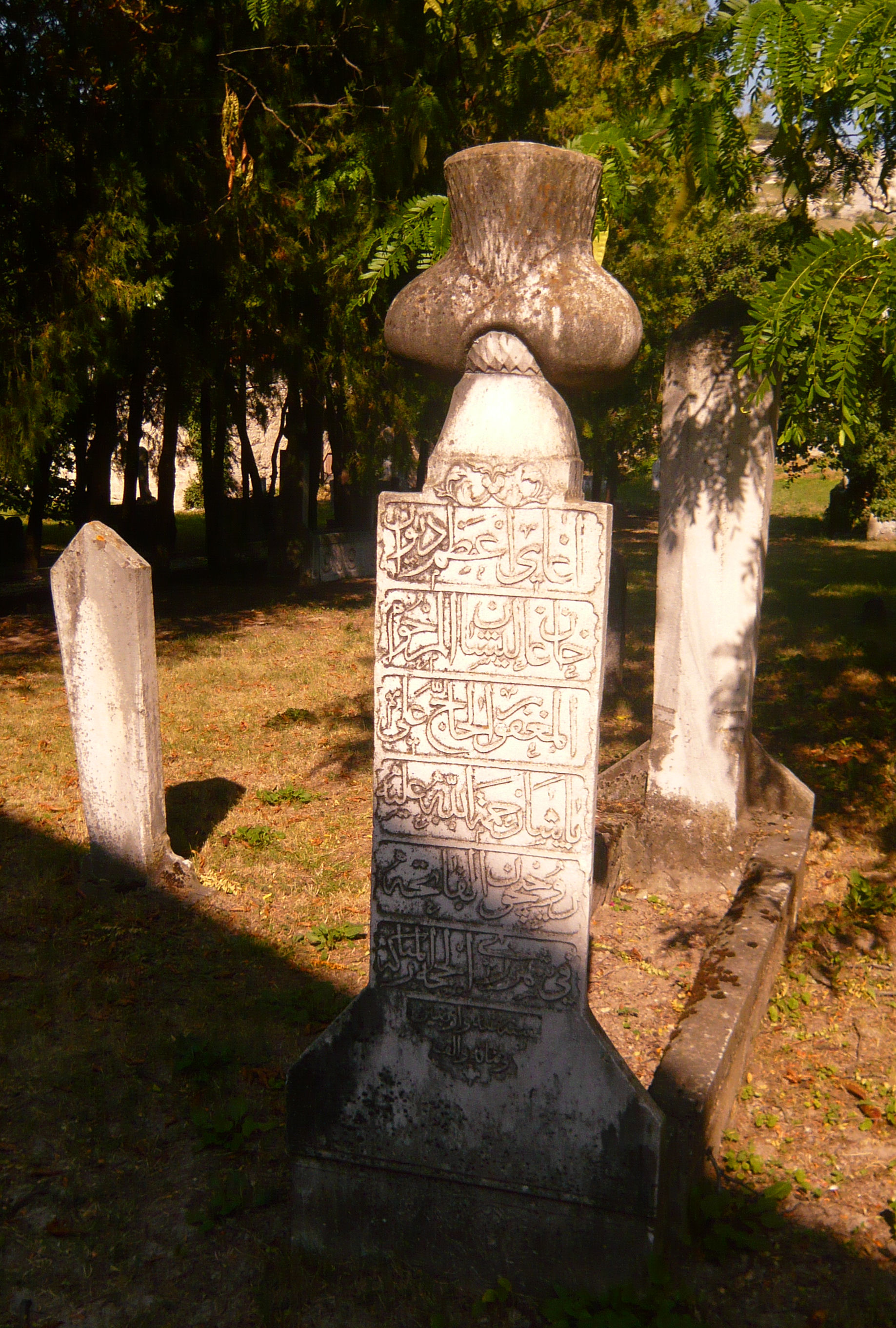 Khans cemetery in Bakhchisaray Palace